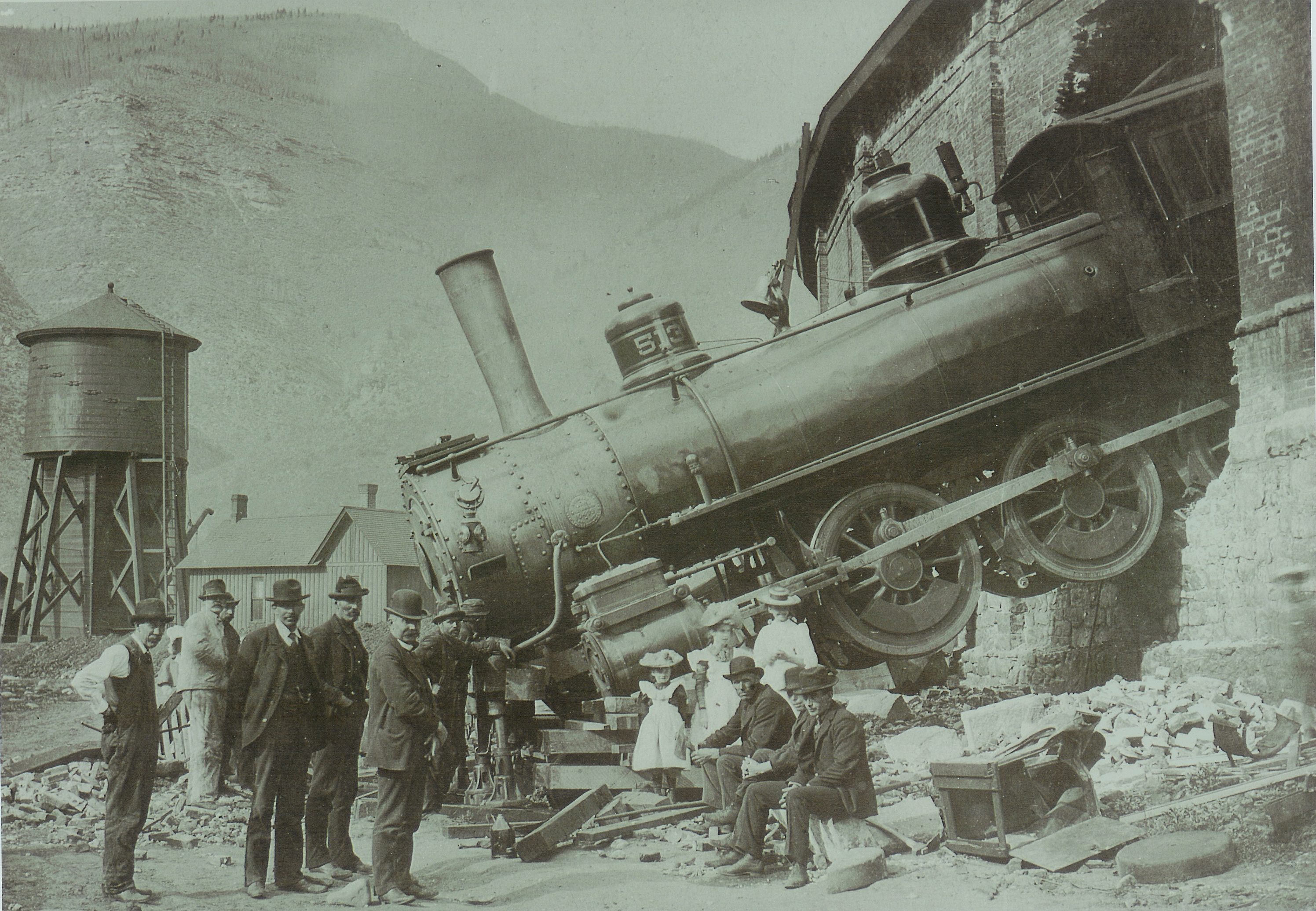 Historic roundhouse crash